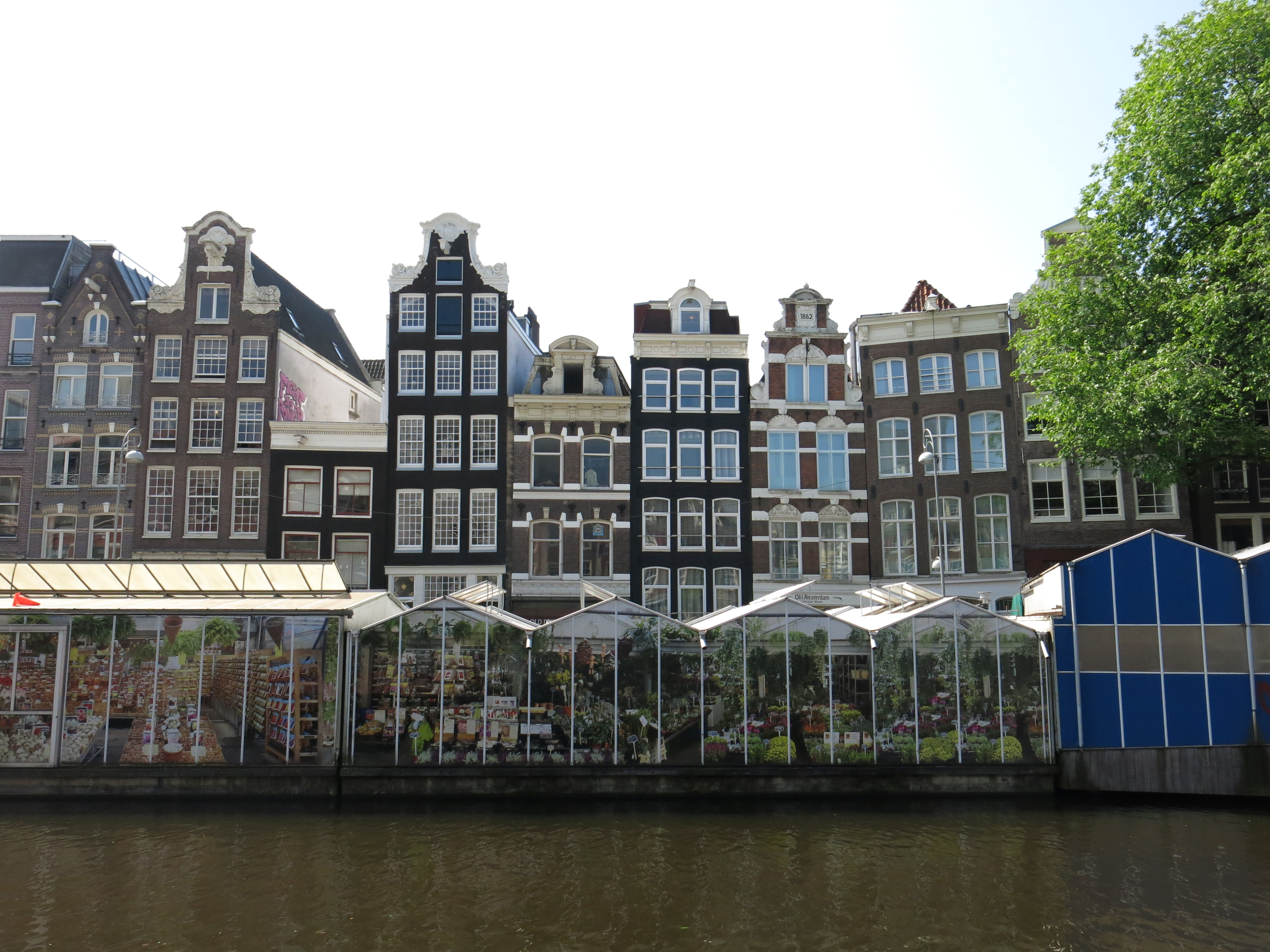 A row of houses in Amsterdam